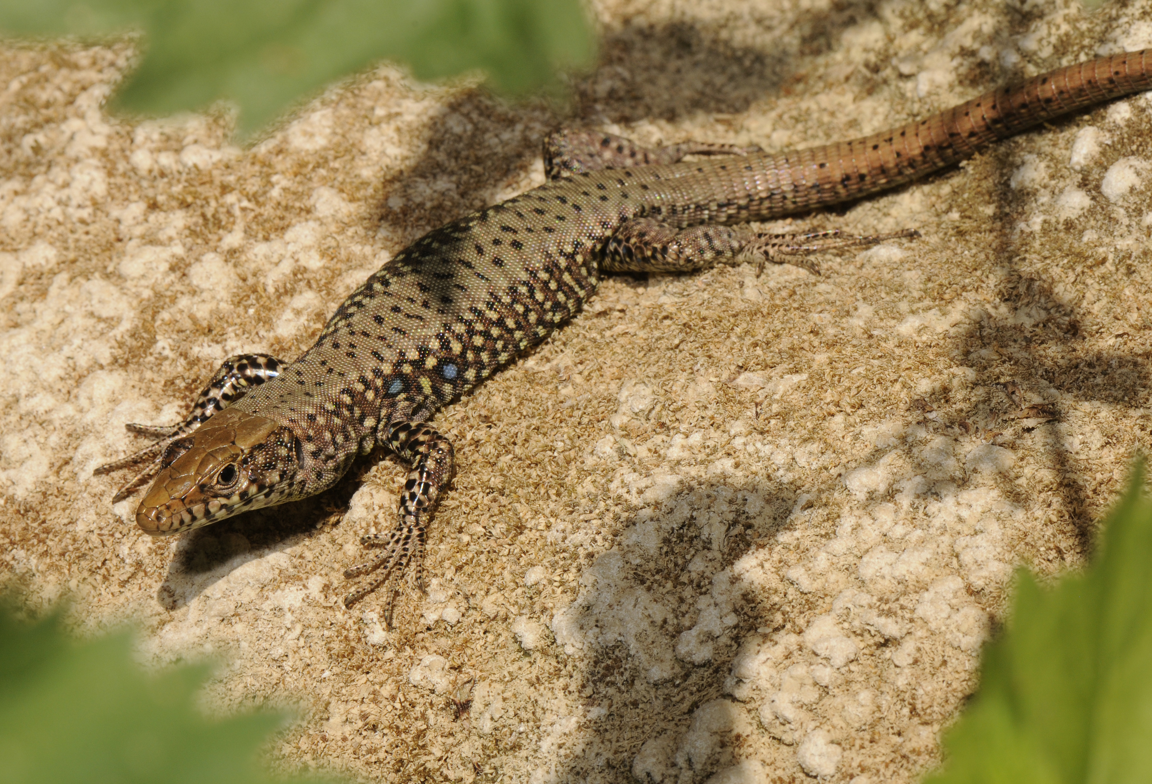 Greek Rock Lizard from Peloponnesus in Greece